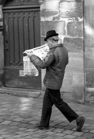 newspaper reader